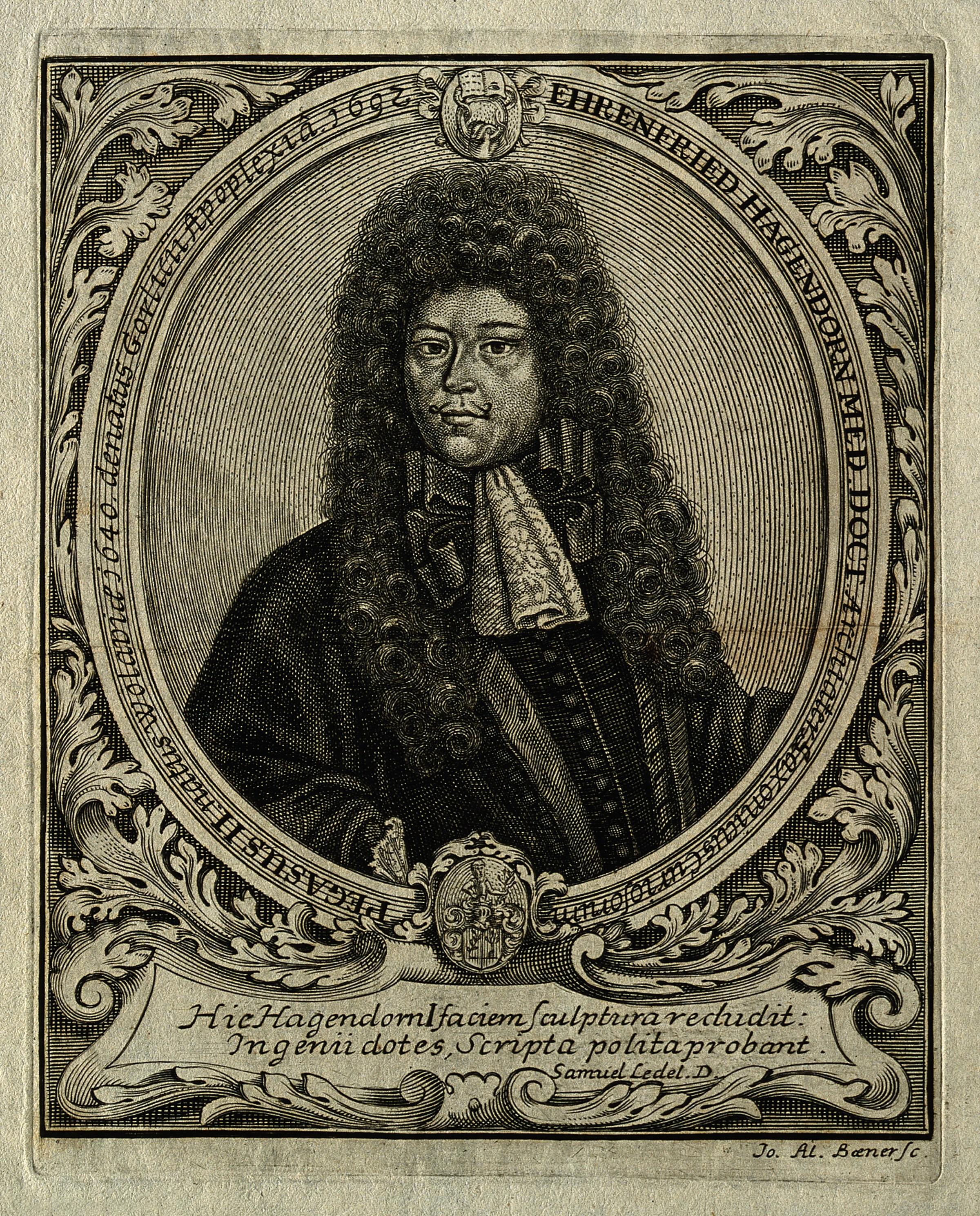 Ehrenfried Hagendorn. Line engraving by J. A. Boener. Iconographic Collections Keywords: portrait prints; Johann Alexander Boener; engravings; Ehrenfried Hagendorn